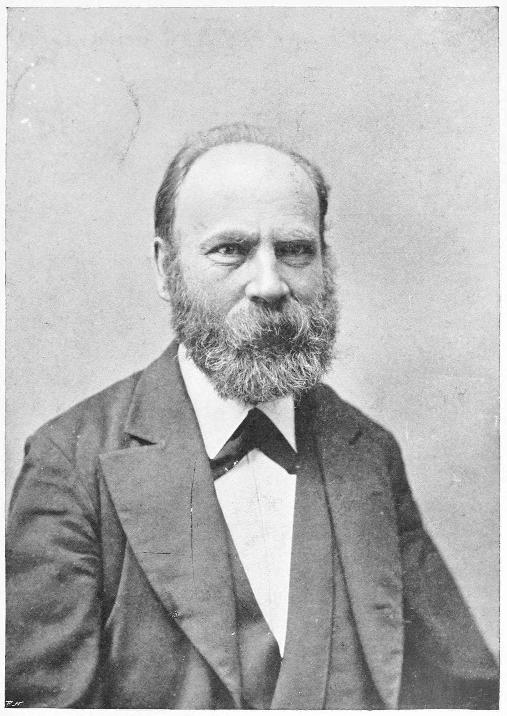 Illustration of Evald Tang Kristensen from a collected volume of journals.